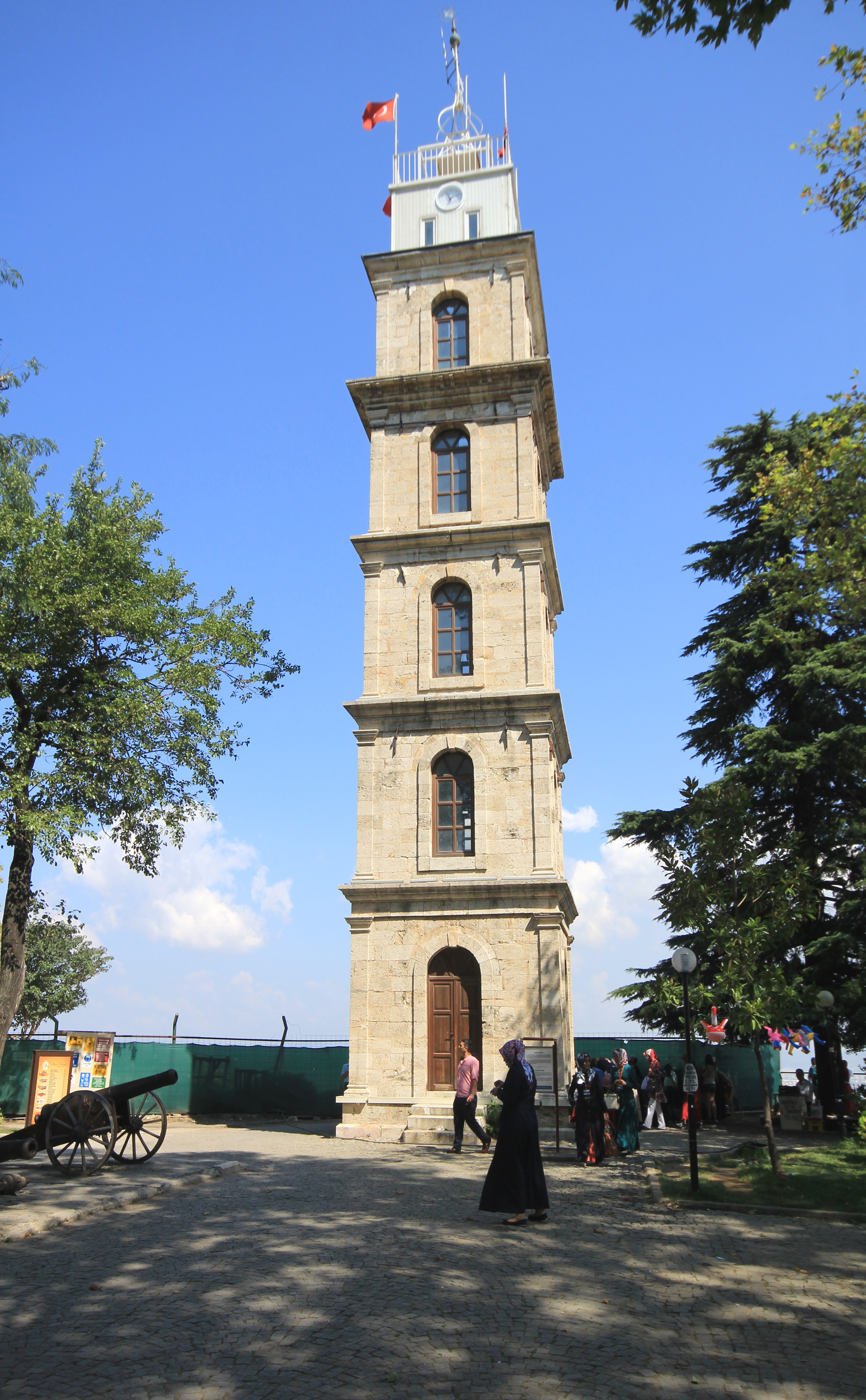 The Bursa clock tower in Bursa city, Turkey